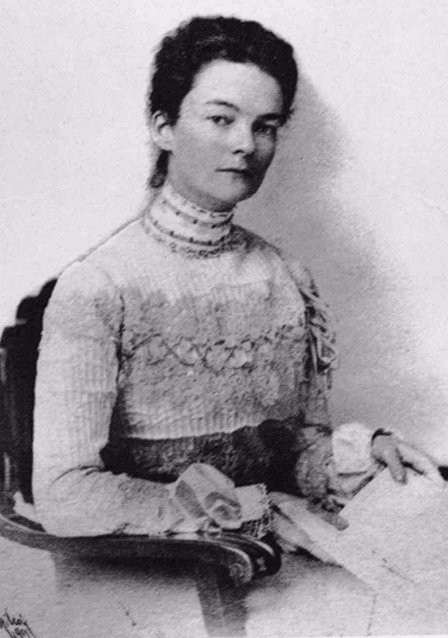 A sketch of Annie M. Alexander, founder of two museums in California.